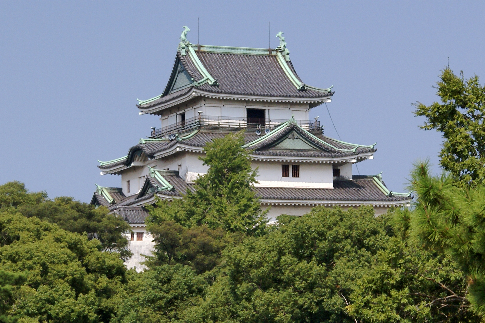 Wakayama Castle, Wakayama, Wakayama prefecture, Japan